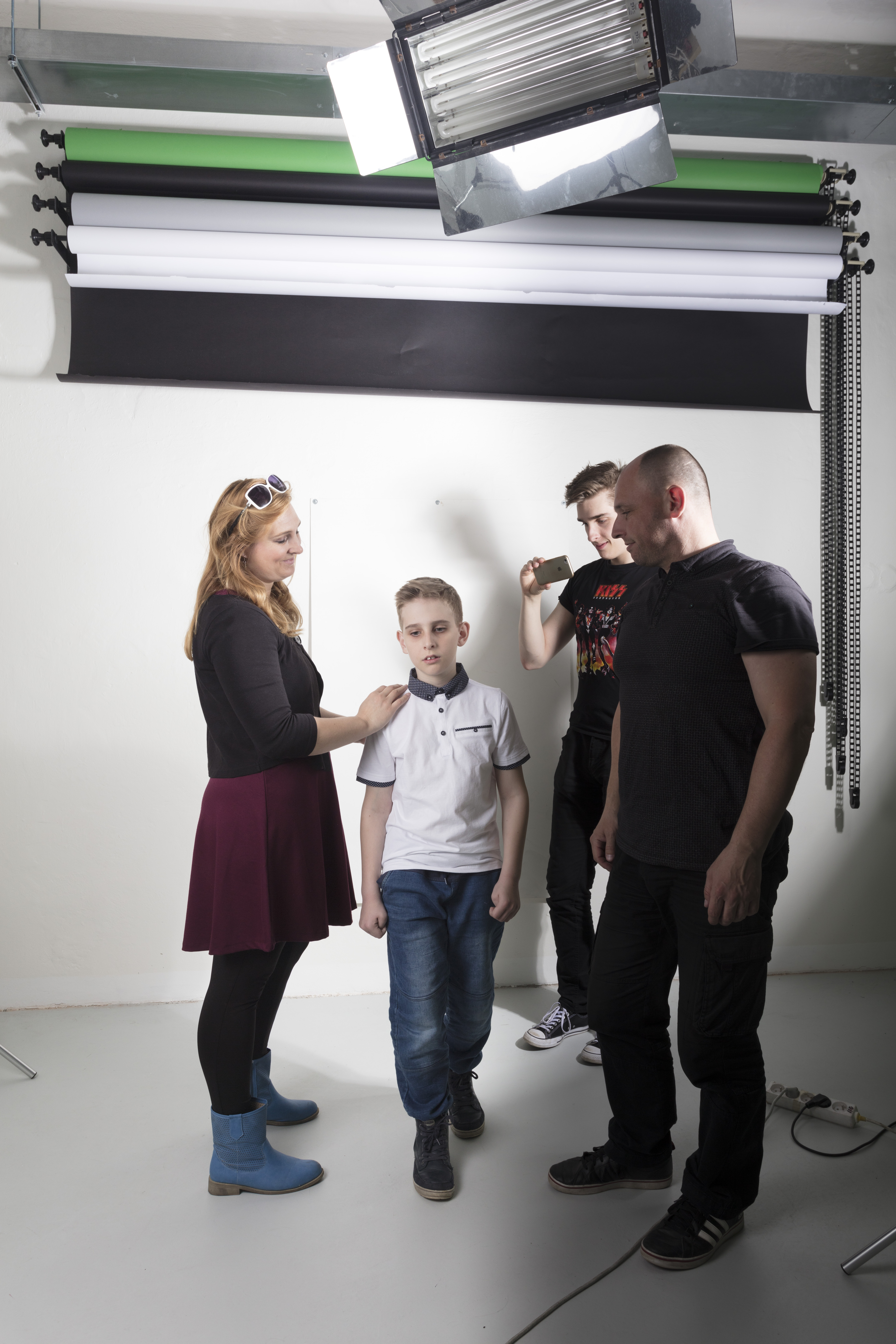 Misha with his family